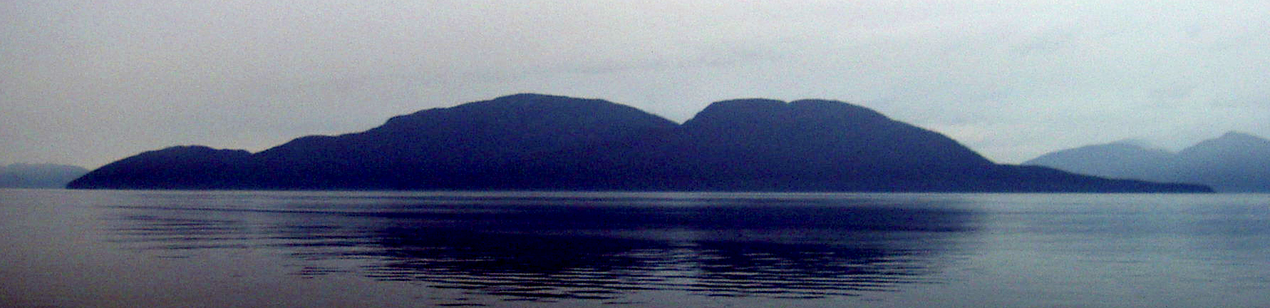 view of Pleasant Island, southeast Alaska, USA from the west, mirrored in the waters of Icy Strait